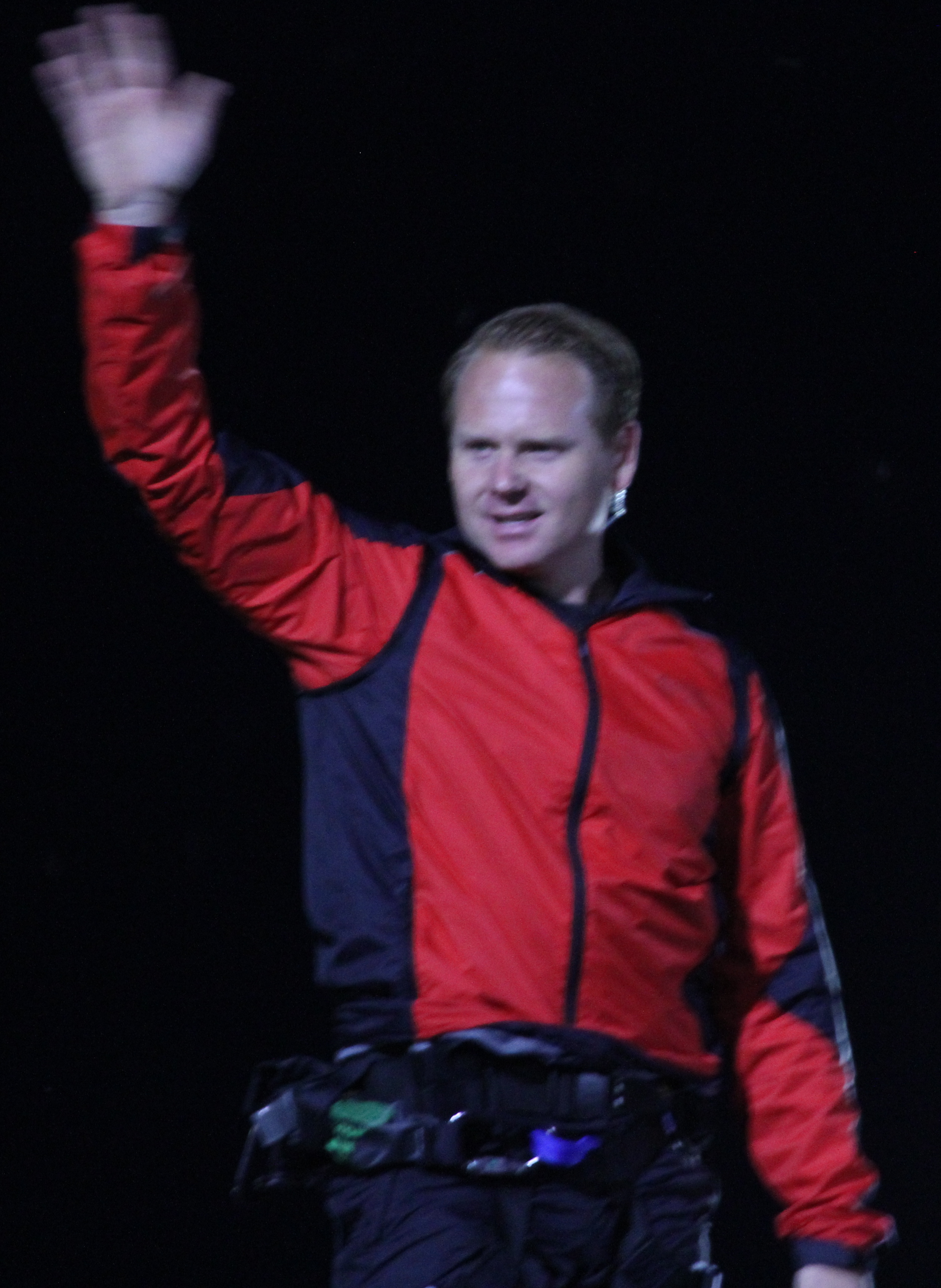 Nik Wallenda waves to the crowd as he prepares to cross Niagara Falls June 15, 2012